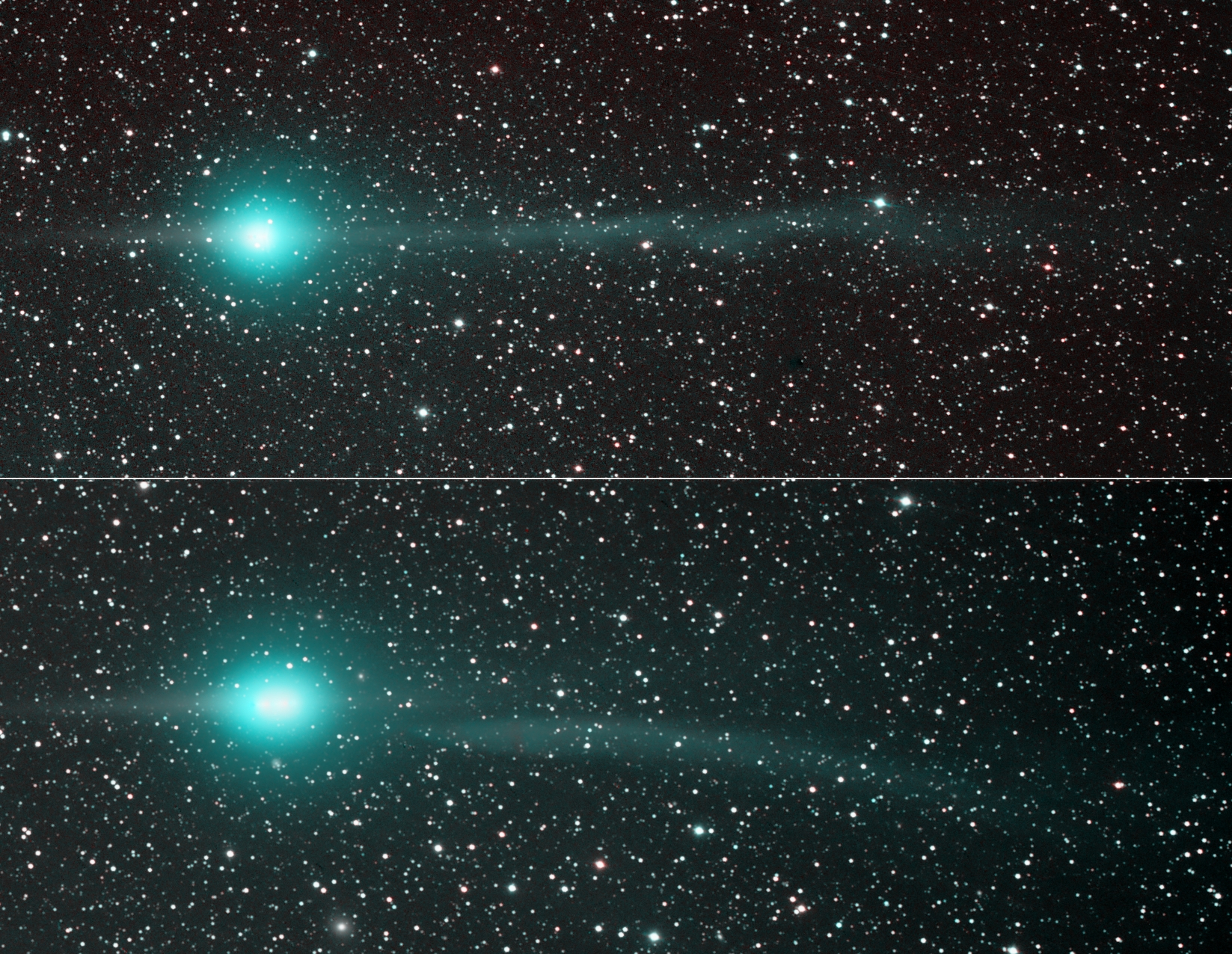 Recent changes in Comet Lulin's greenish coma and tails are featured in this two panel comparison of images taken on January 31st (top) and February 4th. Taken from dark New Mexico Skies, the images span over 2 degrees. In both views the comet sports an apparent antitail at the left -- the comet's dust tail appearing almost edge on from an earth-based perspective as it trails behind in Lulin's orbit. Extending to the right of the coma, away from the Sun, is the ion tail. As captured in the bottom panel, Lulin's ion tail became disconnected on February 4, likely buffeted and torn away by magnetic fields in the solar wind